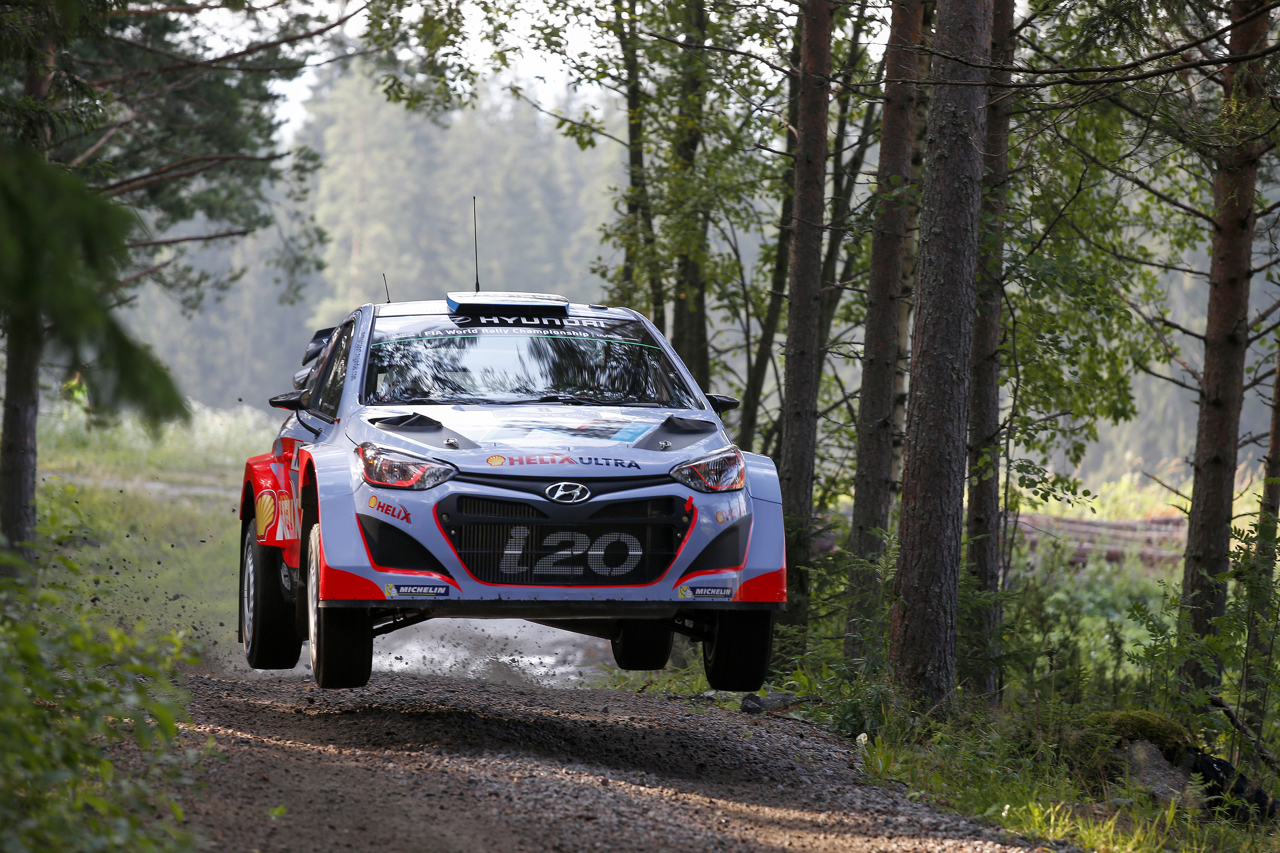 Juho Hänninen and co-driver Tomi Tuominen in their Hyundai i20 WRC during shakedown, the day before the start of the 2014 Rally Finland.